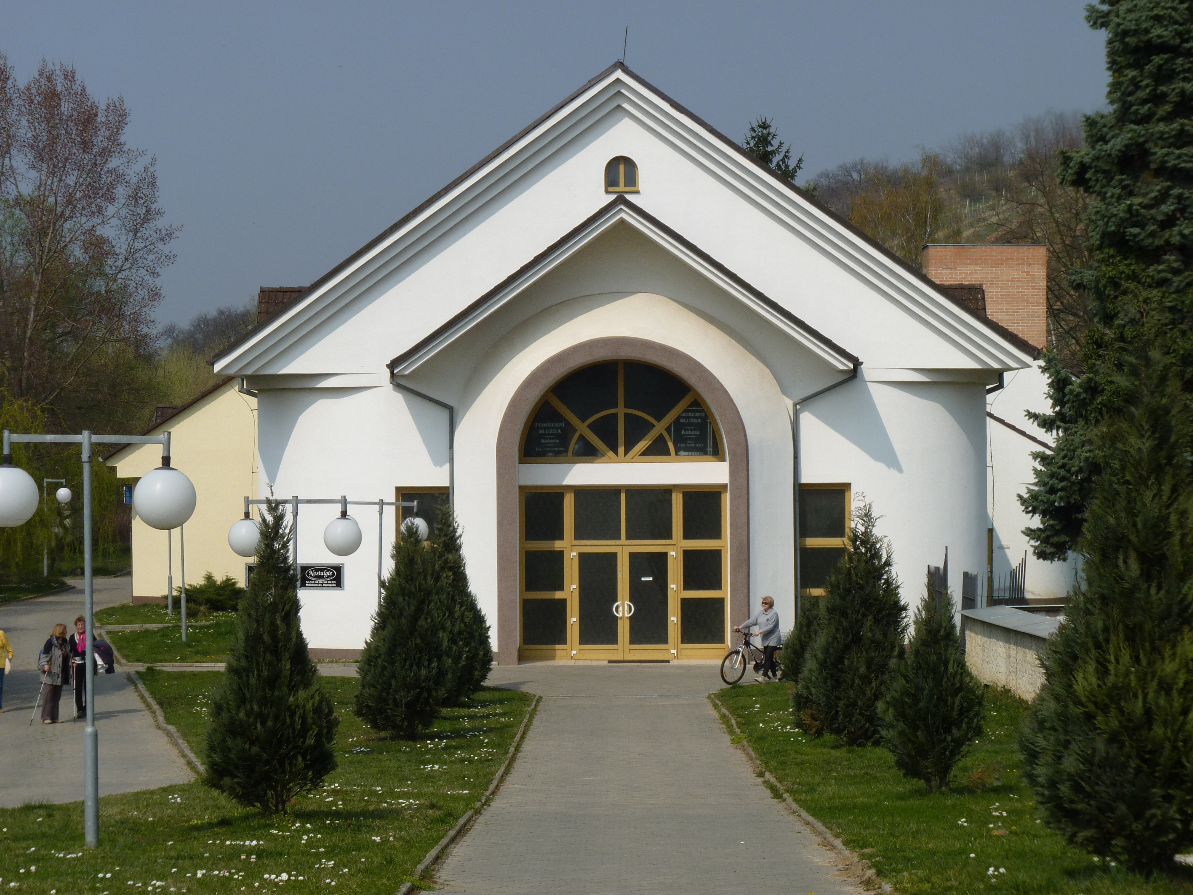 Cemetery. Hustopece, Breclav District, South Moravian Region, Czech Republic Project: Chráněná území